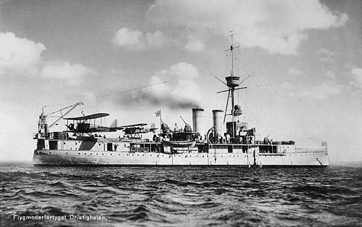 Postcard picture of the Swedish coastal defence ship HMS Dristigheten.